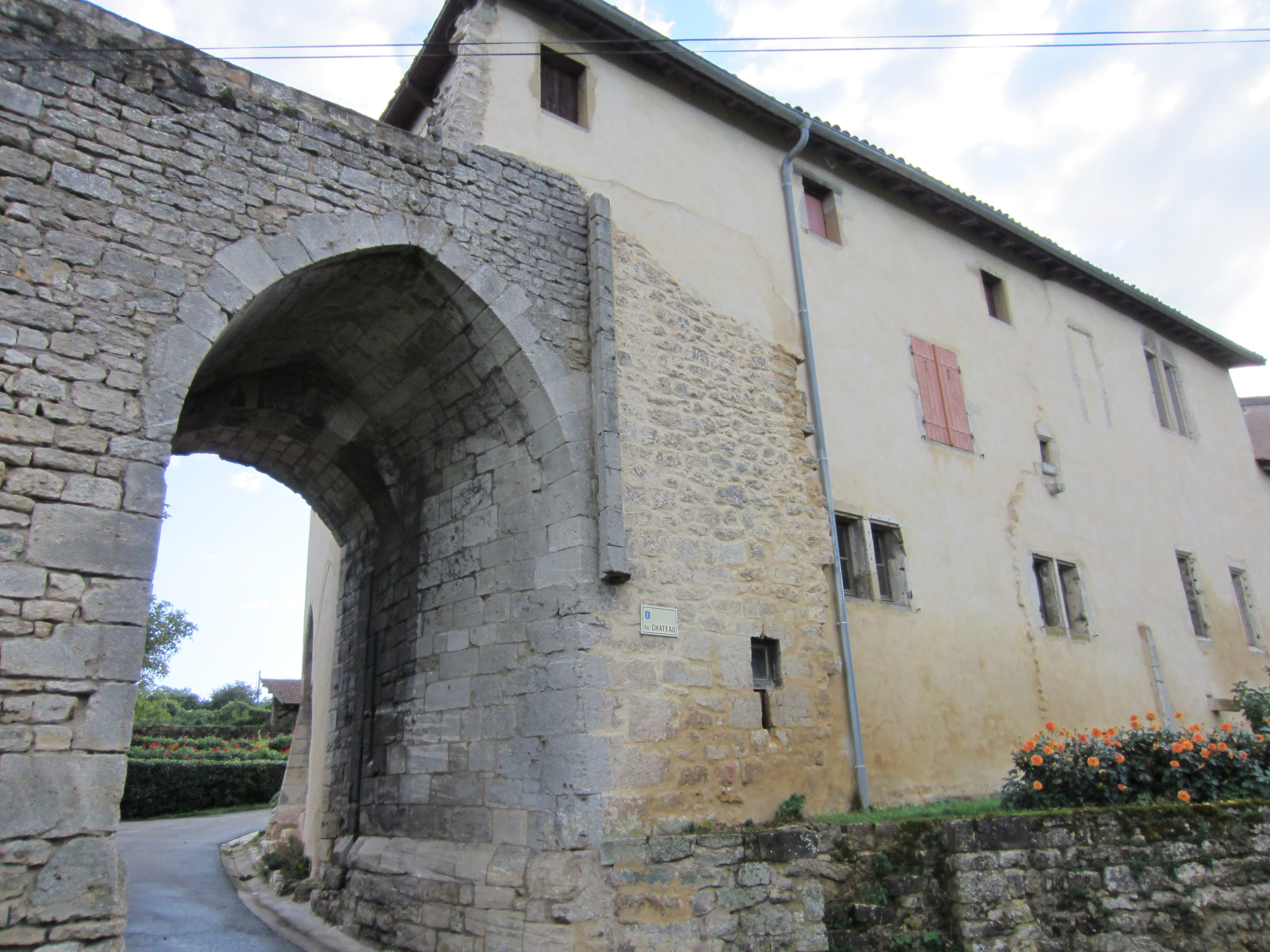 Description porte chateau Preny Date13 September 2011Sourcemon appareil photoAuthorAimelaimePermission(Reusing this file) porte chateau Preny